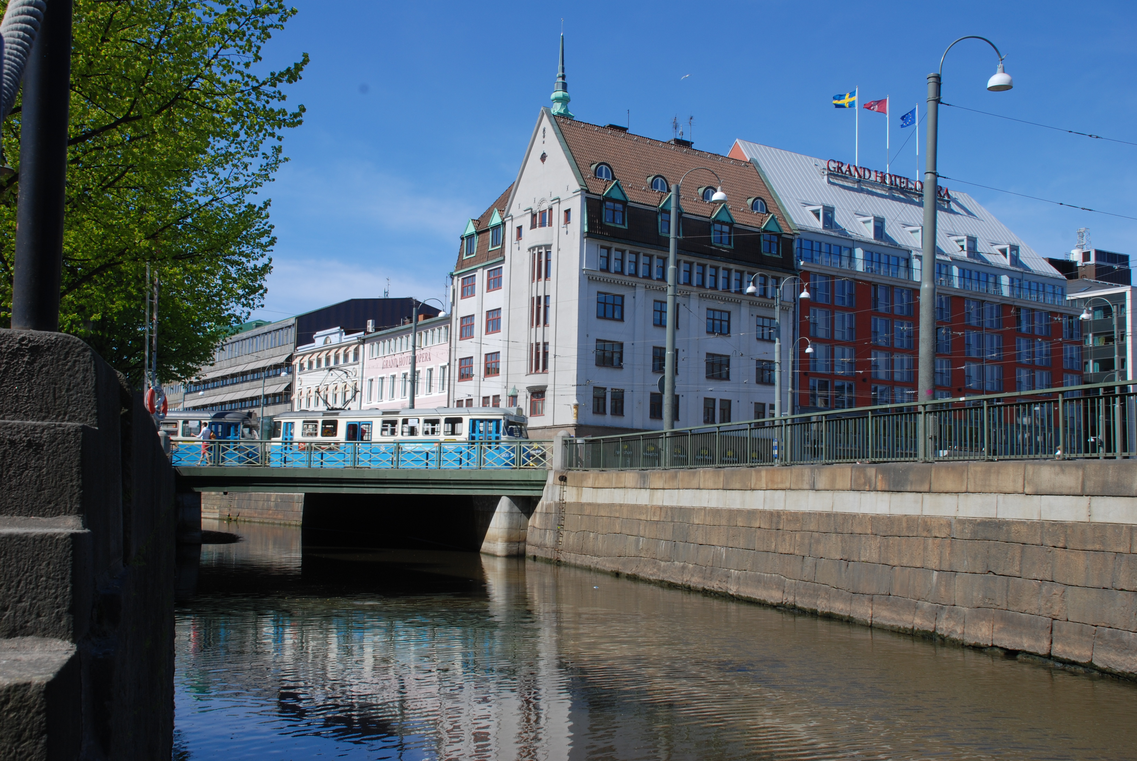 The bridge Kvarnbron at Drottningtorget in Göteborg.